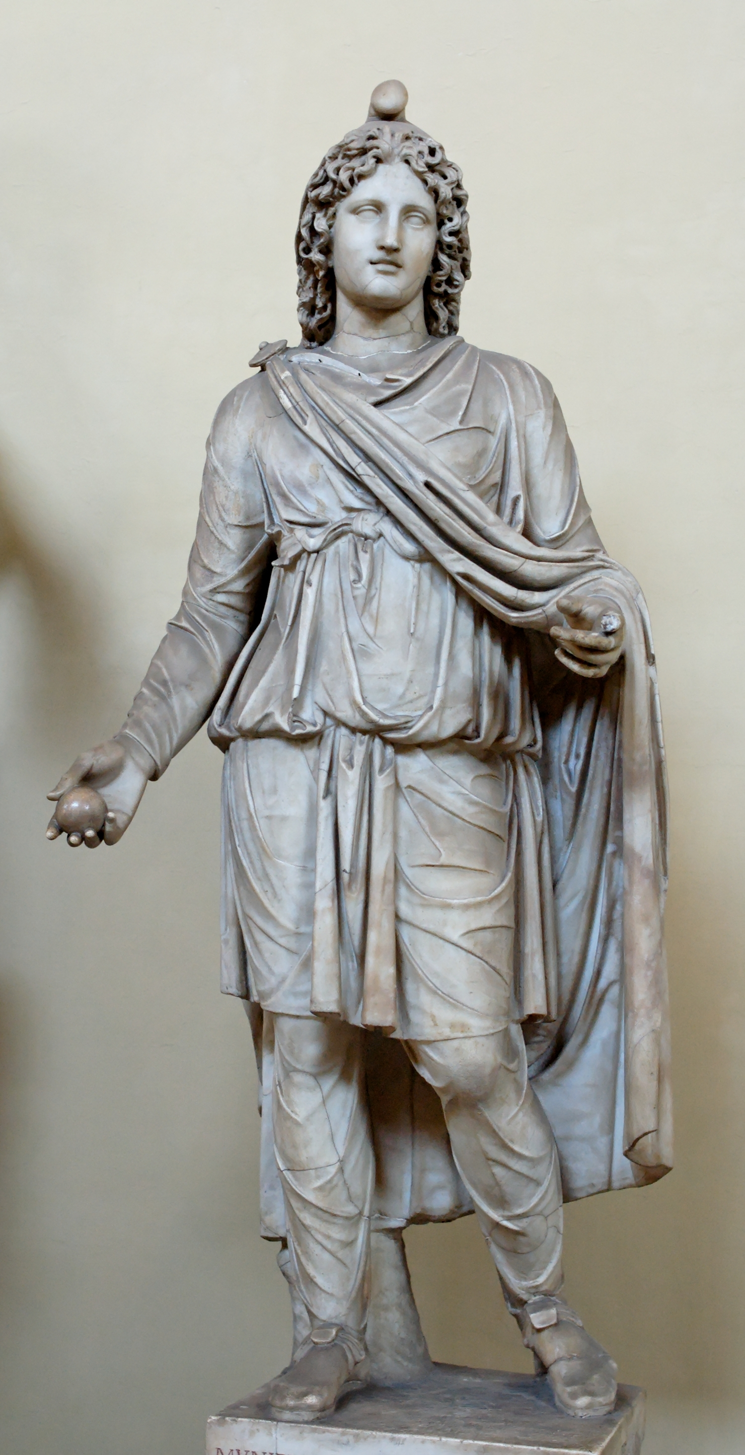 Mithraic torch-bearer Cautes/Cautopates, Vatican, Museum Chiaramonti, XXXIII, 5. Originally held a torch, but when discovered in 1785 misinterpreted as Apollo and thus in the subsequent restoration in Paris given an apple to hold. CIMRM 507/MMM II 209.27. Marble, Roman artwork, 2nd–3rd century CE. From a grotto 5 miles outside Porta Portese in Rome, 1785. Found together with torch-bearer sibling statue CIMRM 506, likewise misinterpreted/restored as Apollo, now in the British Museum (Cat. Br. Mus., 89 No. 1722).